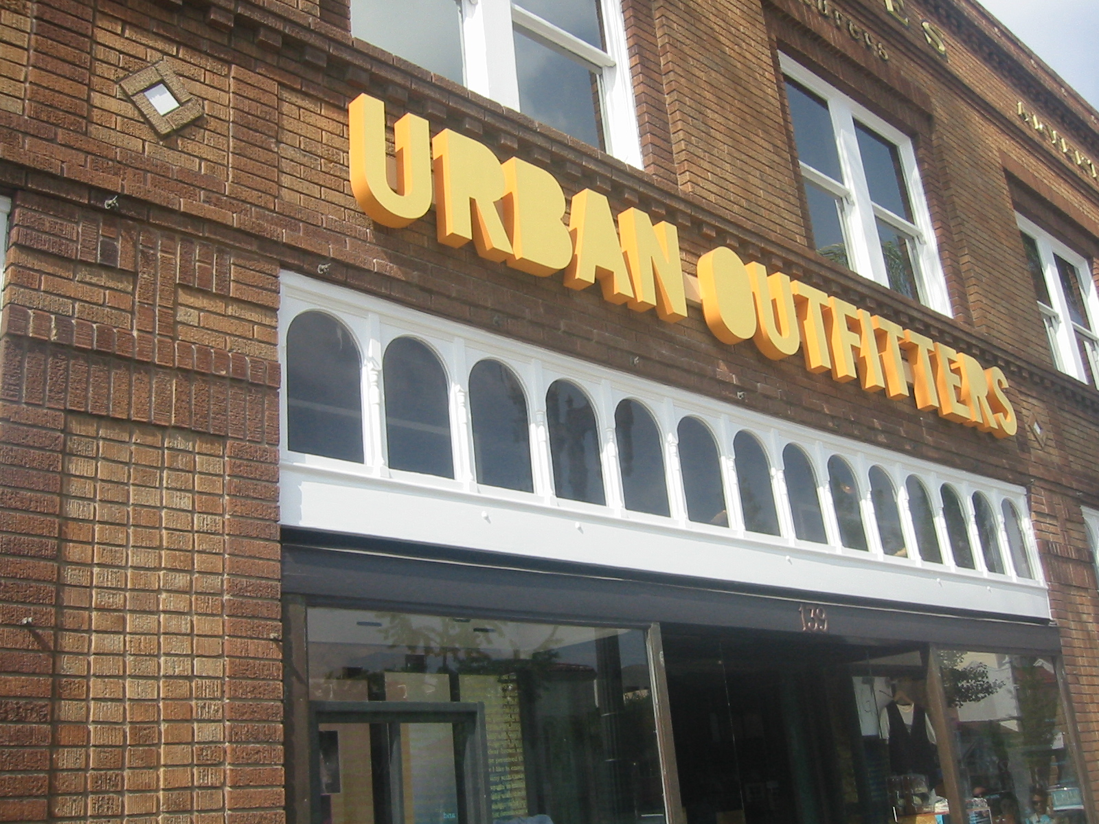 Urban Outfitters in Pasadena, California